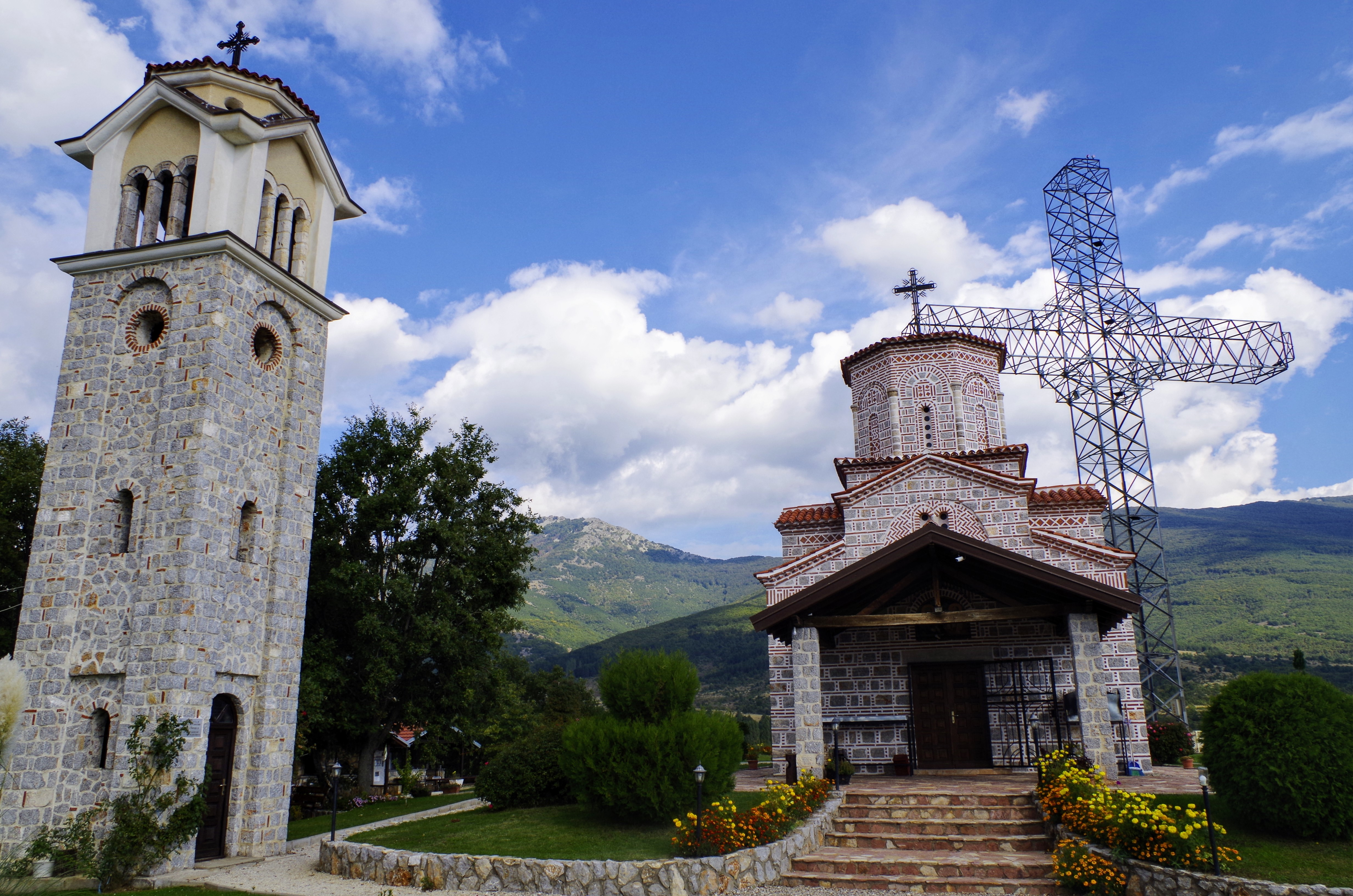 View of the village Podmočani